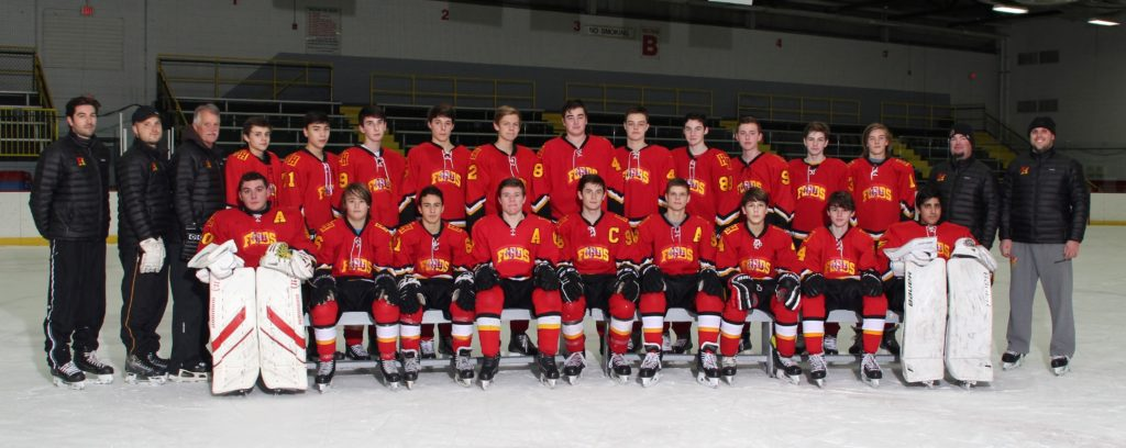 2018-19 High School Varsity Team